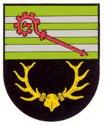 Coat of arms of Hirschthal (Pfalz)